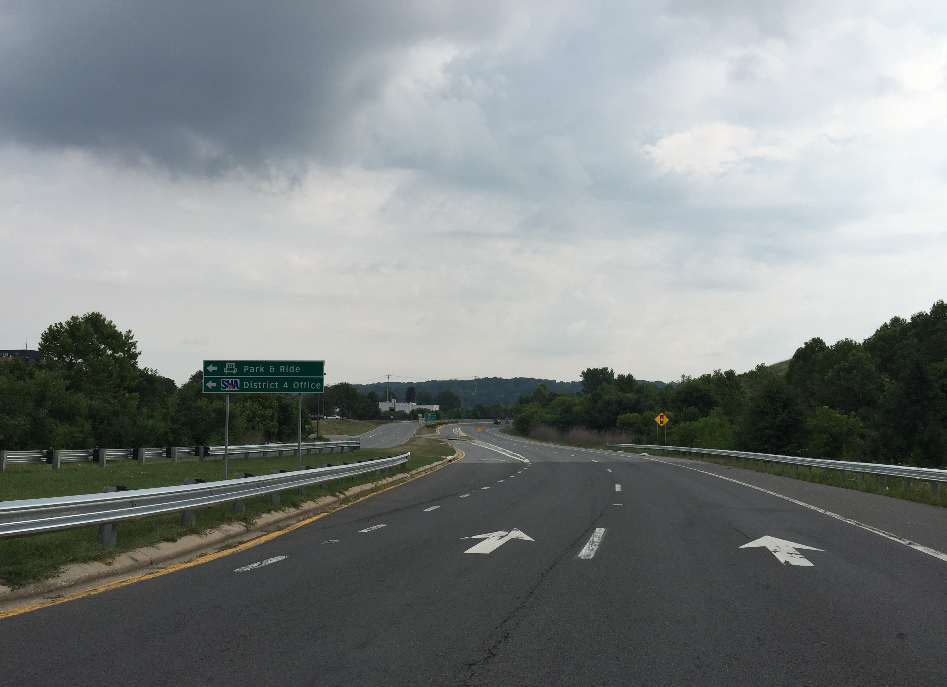 View northeast along Maryland State Route 943 (Warren Road) at Goodwin Run in Cockeysville, Baltimore County, Maryland